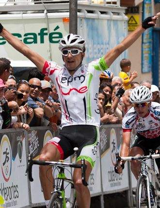 Colombian cyclist Juan Pablo Suárez bei der Clásica Internacional del Café 2011, 4ª etapa